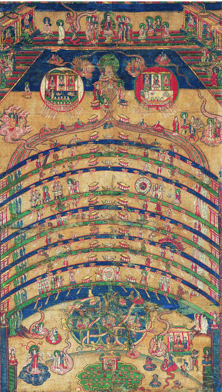 Heaven and Earth, a painting that describes Manichaean cosmology. Hanging scroll, paint and gold on silk, Yüen dynasty (1279–1368 c.e.).